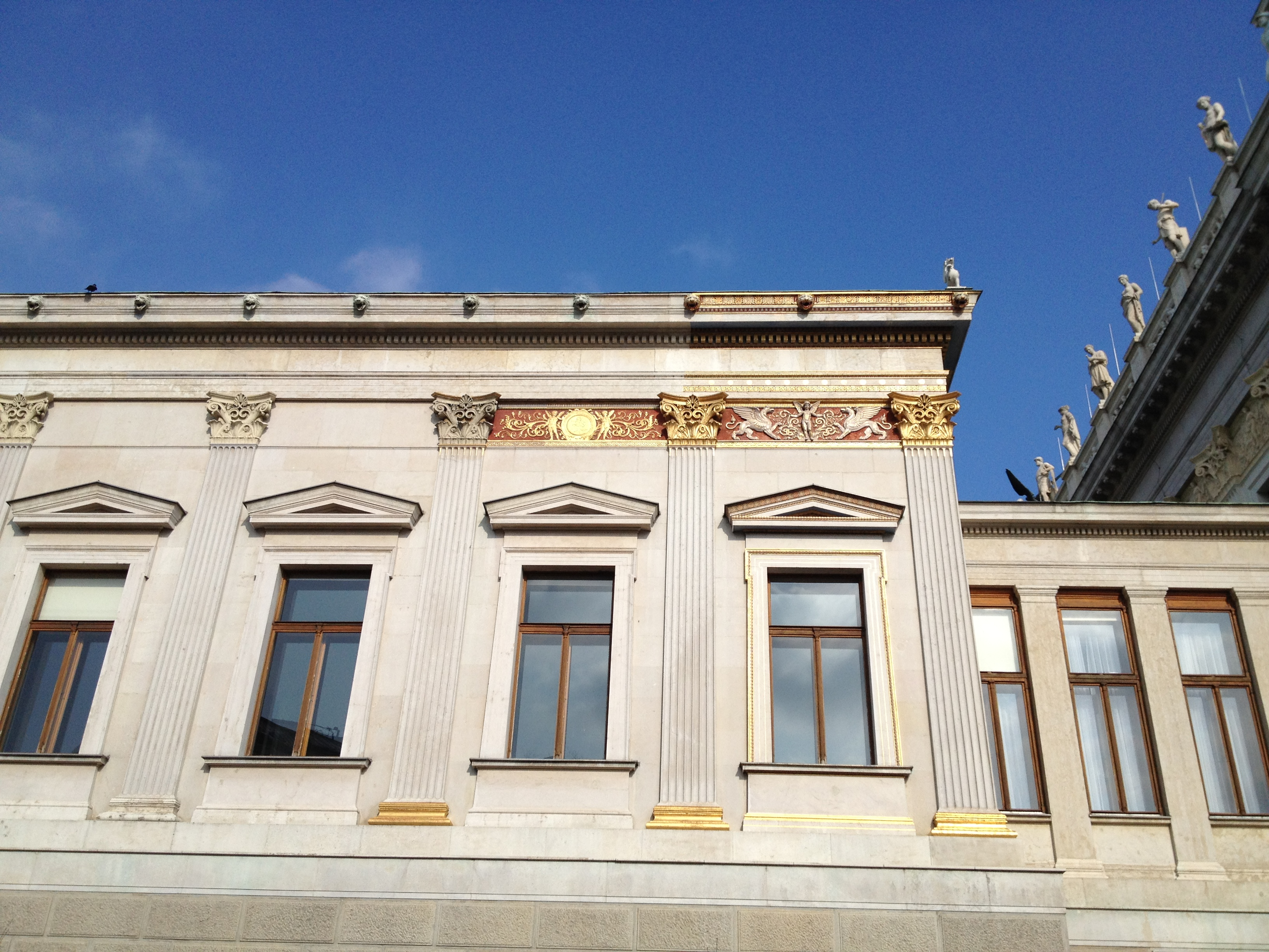 Coloured sections of the Austrian Parliament building in Vienna. The architect Baron Theophil von Hansen wanted the whole structure to be painted and was allowed to paint some sections as a test. These can be seen on the southern side at Schmerlingsplatz.